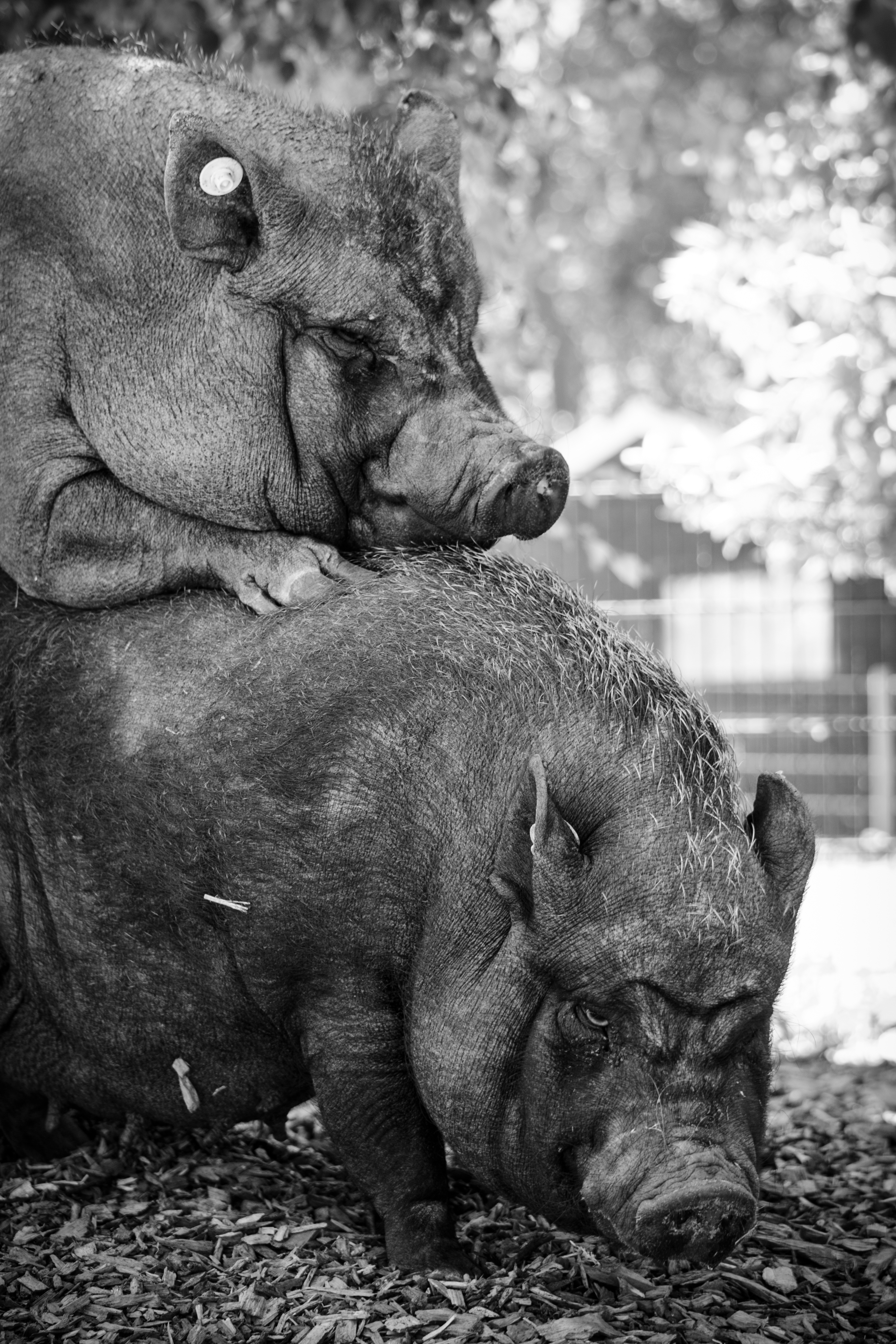 A monochrome photo of two female miniature pigs, one of which is attempting to mount the other. The photo was taken at petting zoo 'De Ridder' in Purmerend, North-Holland, The Netherlands.